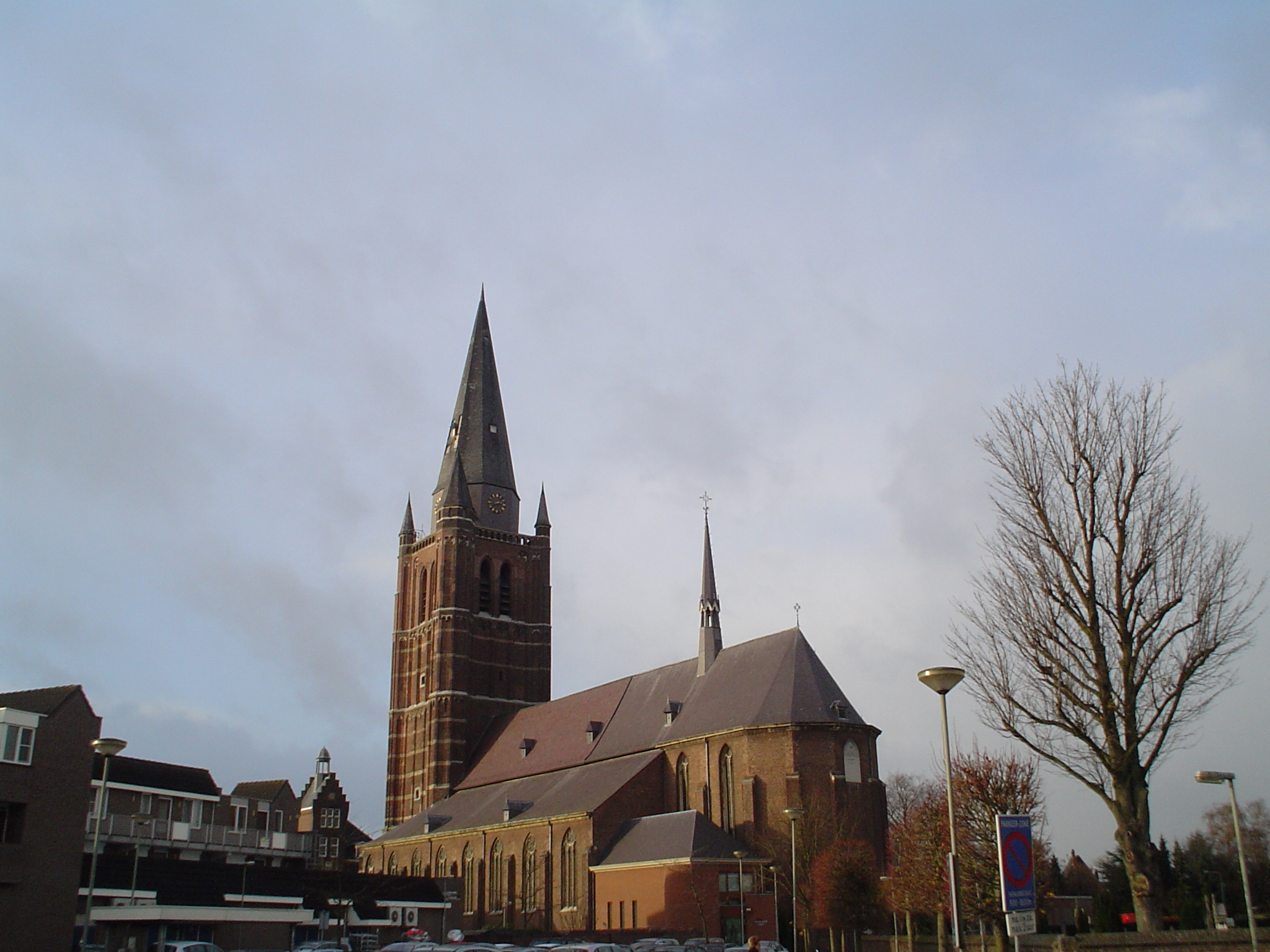 The St. Lambertuschurch in Nederweert, the Netherlands